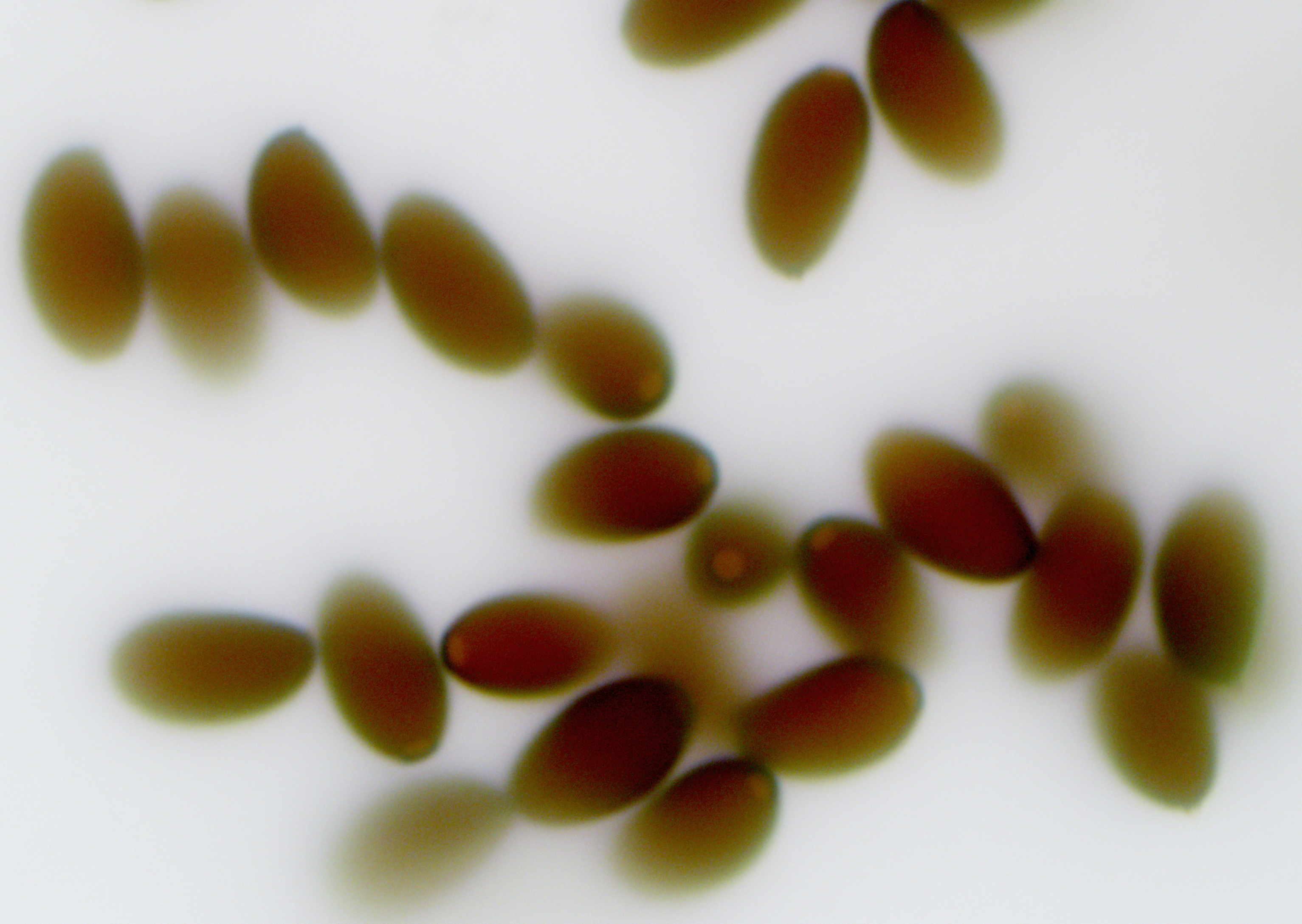 The germ pores are the light oval to circular features